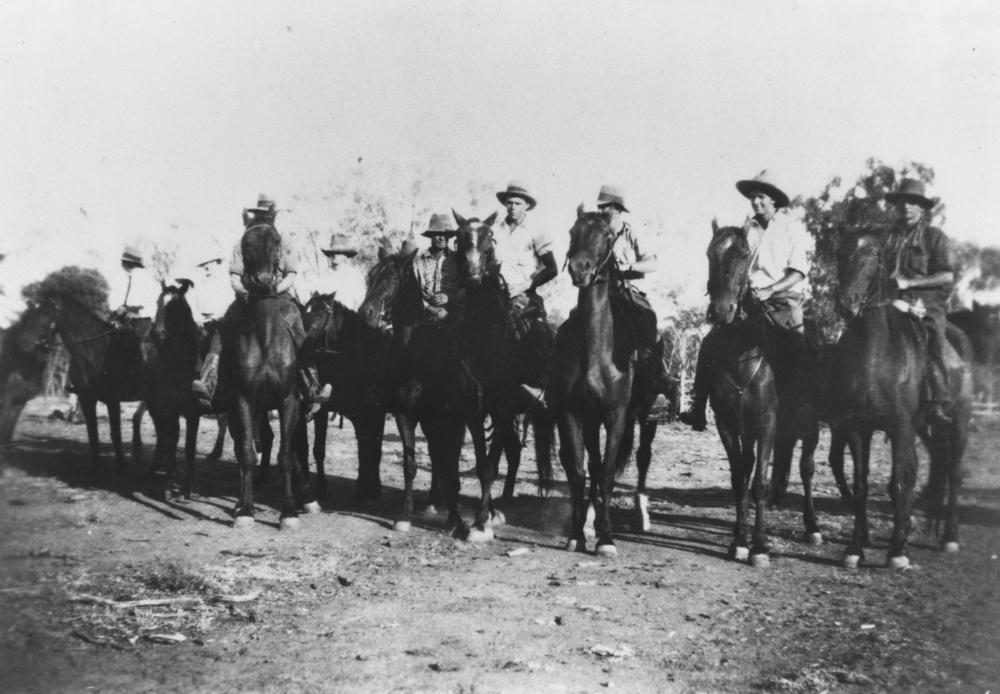 Riders gather for a dingo drive at Durella Station in Morven, ca. 1936